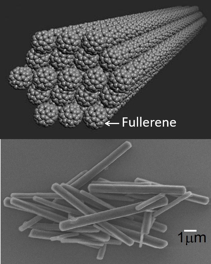 Schematic (top) and SEM image (bottom) of fullerene whiskers